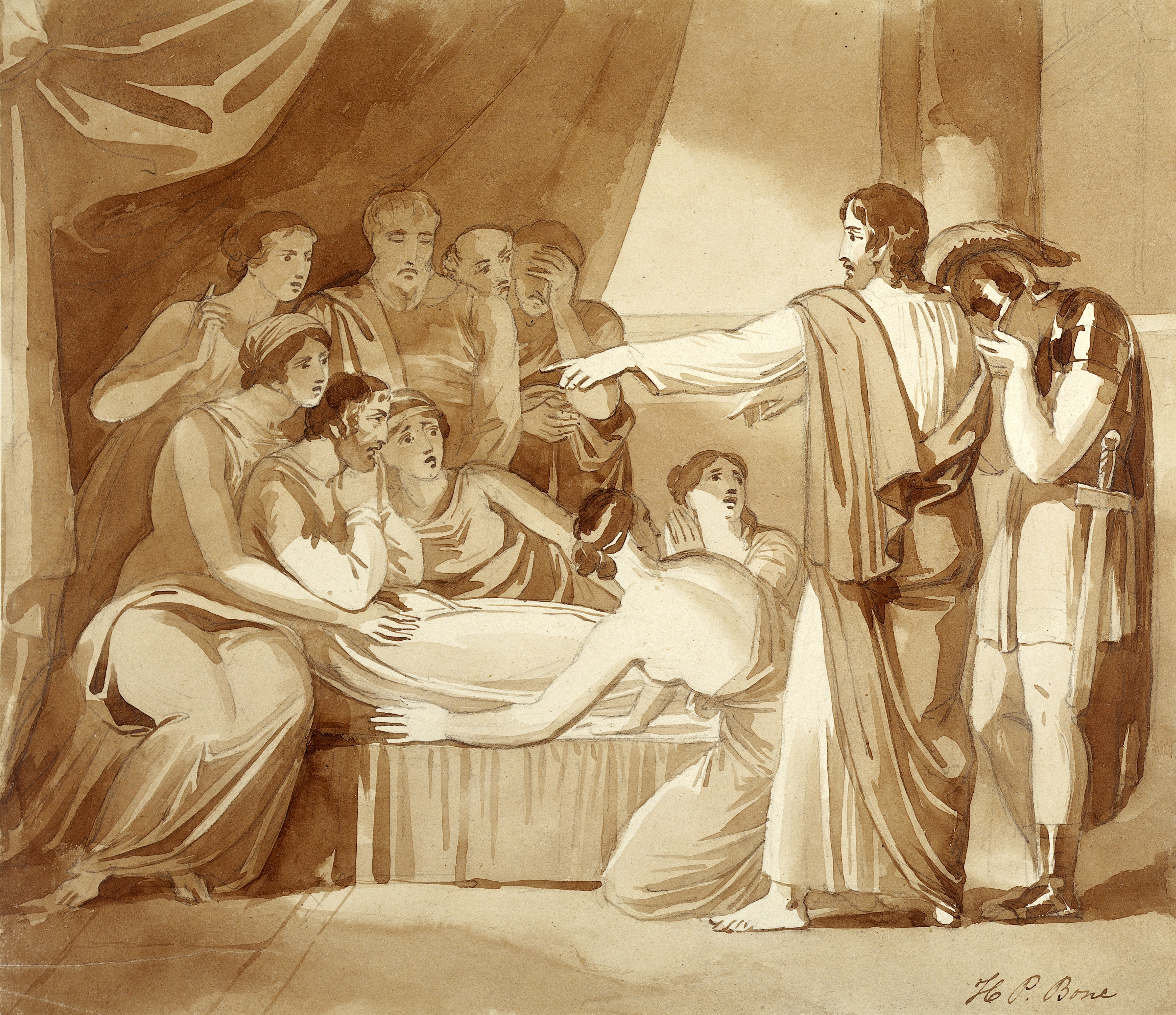 King Ahaziah lies sick after having fallen through an upper window: Elijah foretells his death. Drawing by H.P. Bone. Iconographic Collections Keywords: catalogue no. 460132i; h.p. bone; king ahaziah; Ahaziah; Henry Pierce Bone; Elijah; Sketching Society; ic